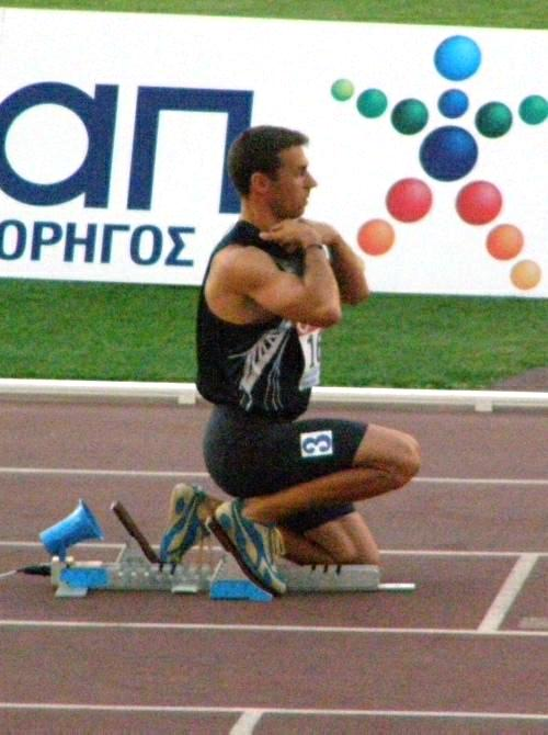 Greek athlete Periklis Iakovakis on the 400m hurdles starting block during the Grand Prix Tsiklitiria 2007 at Olympic Staduim, Athens, Greece